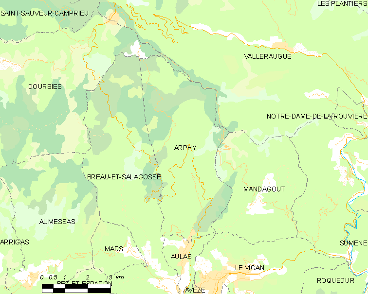 Map commune FR insee code 30015.png - Arphy